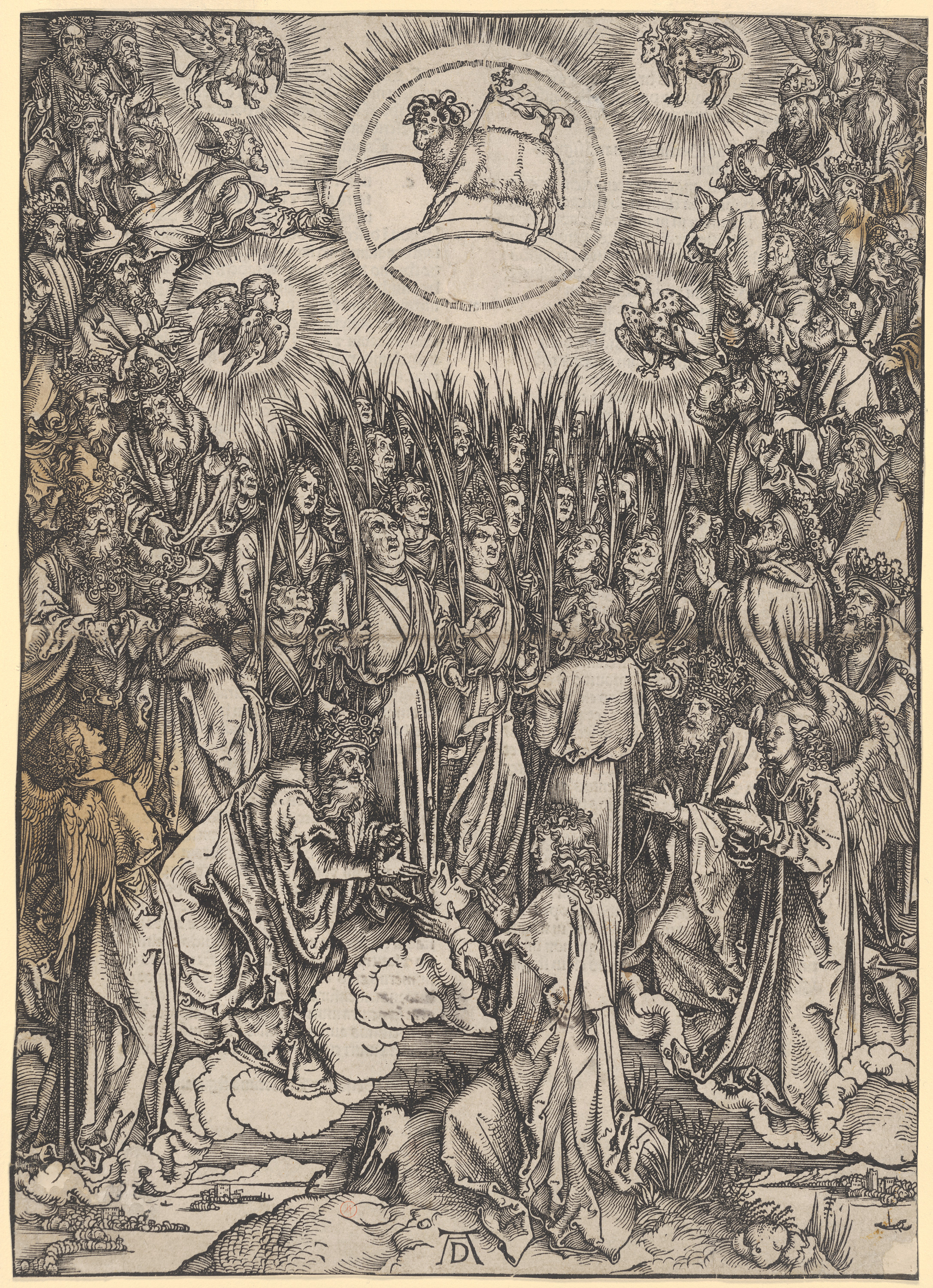 The hymn for the adoration of the lamb, woodcut from Dürer's Apocalypse